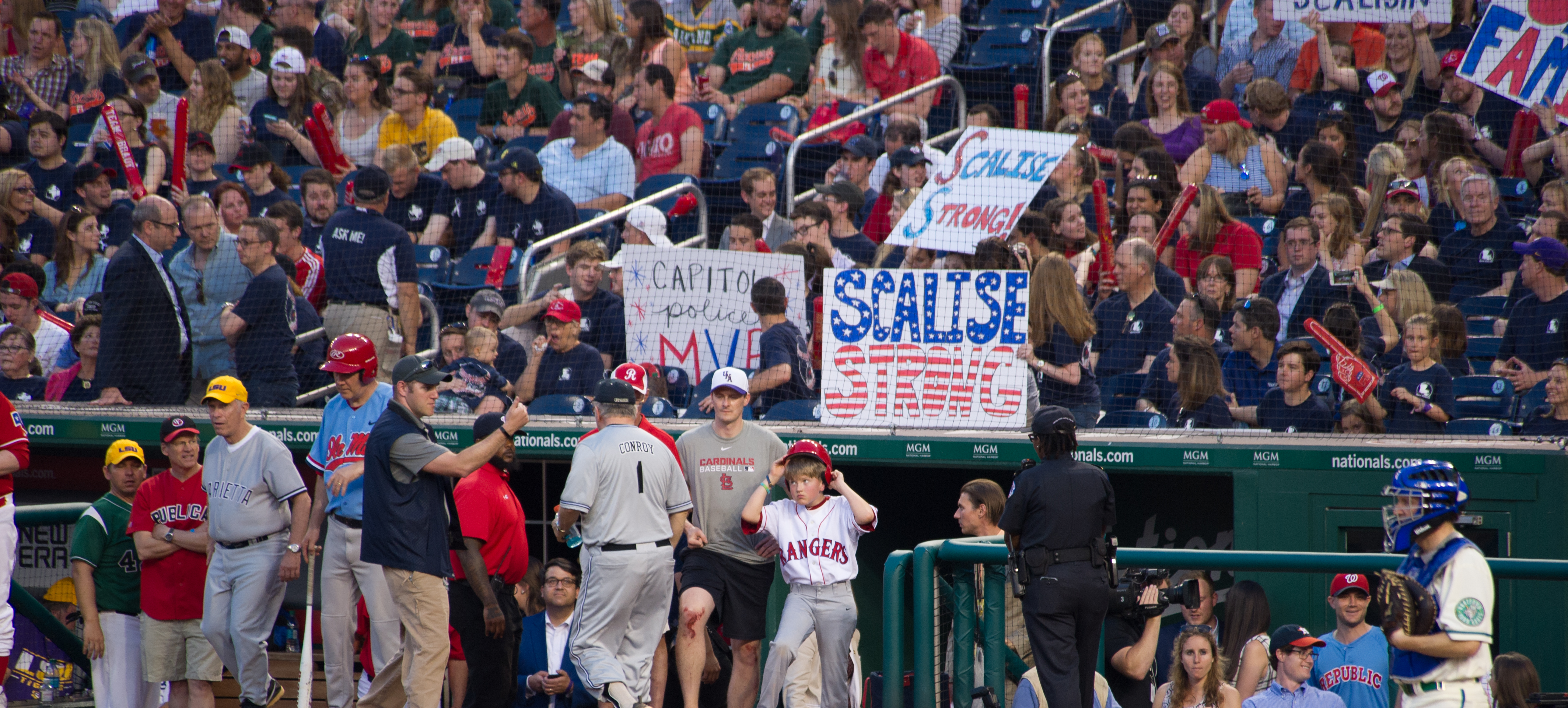 Image taken at Nationals Park during the 2017 Congressional Baseball Game.